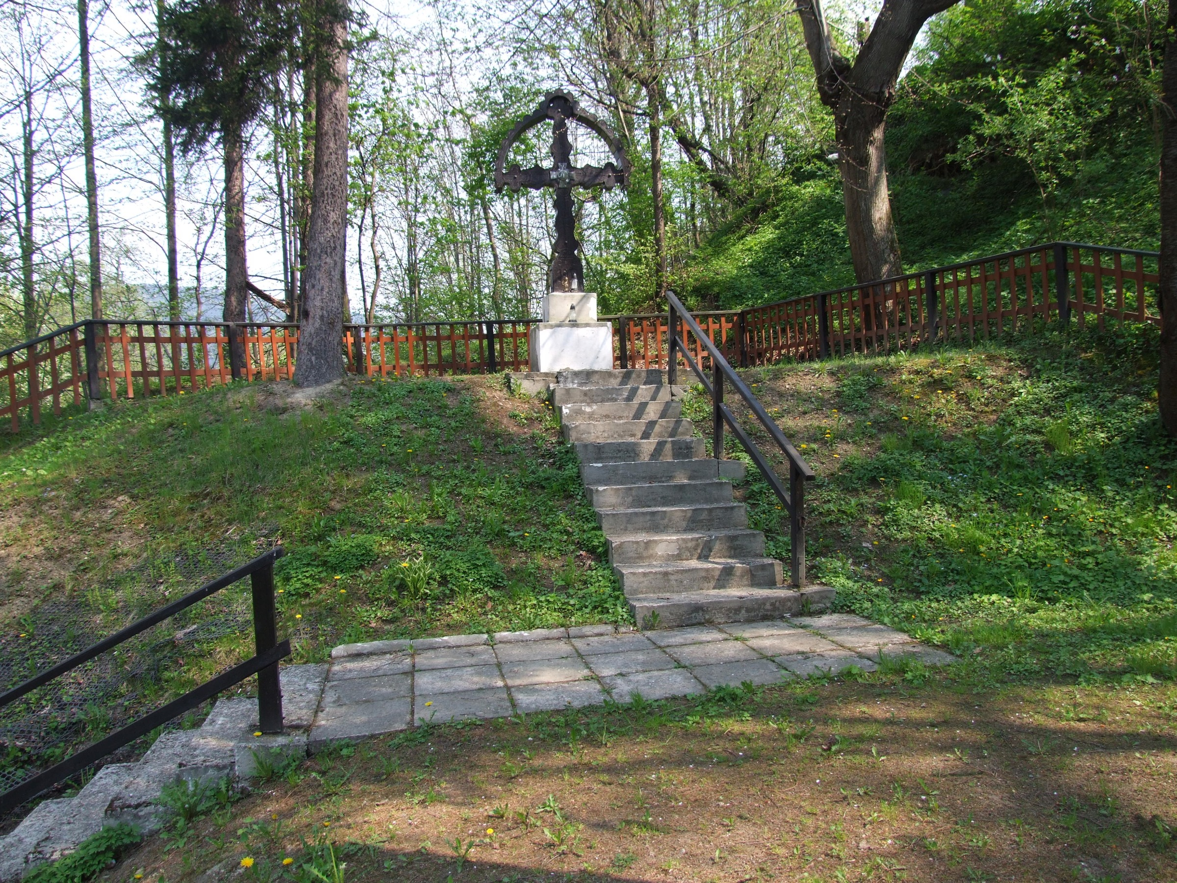 World War I Cemeteries in Poland